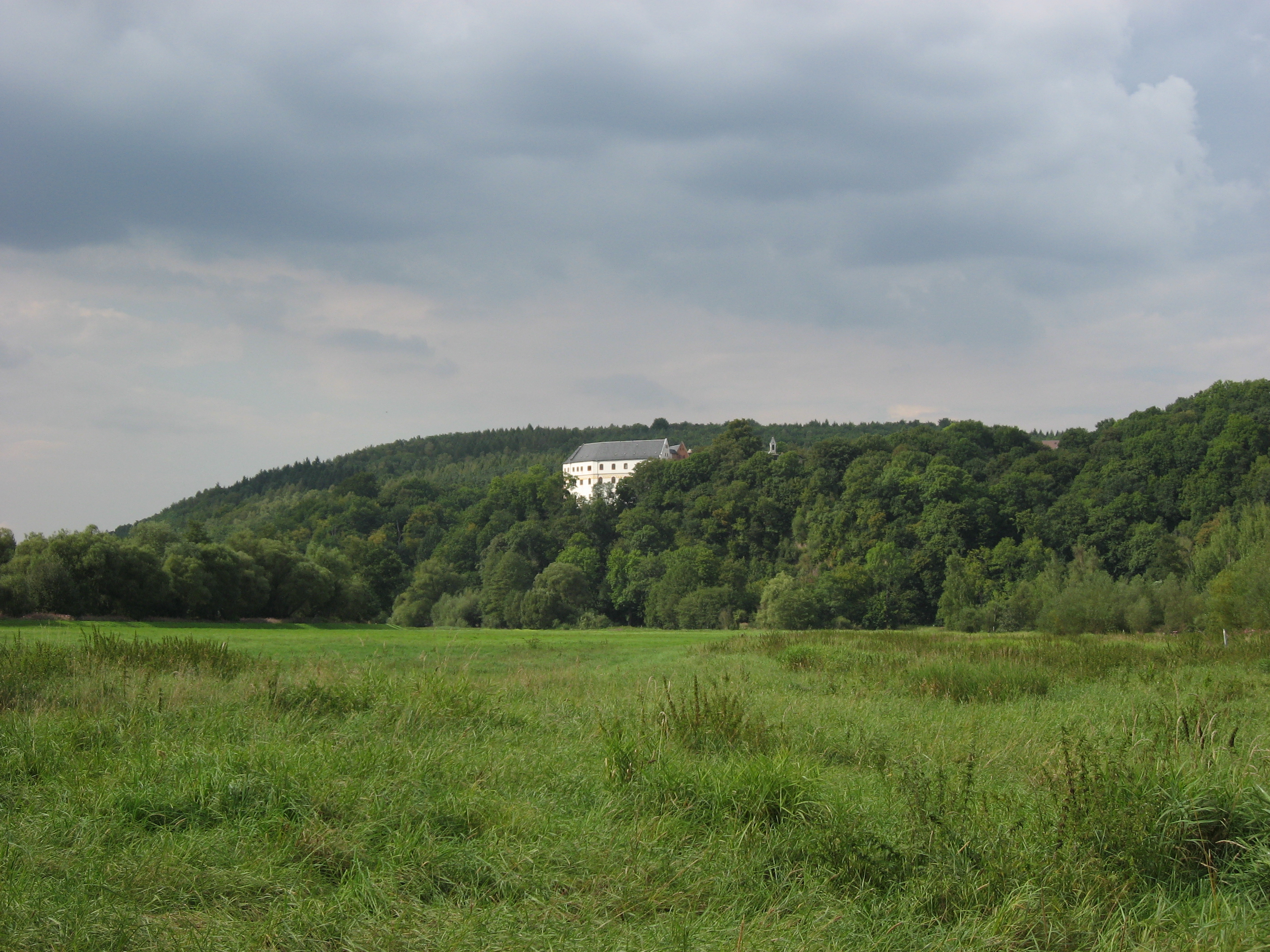 Treppenhauer mountain in the background. Sachsenburg castle Zschopau valley.